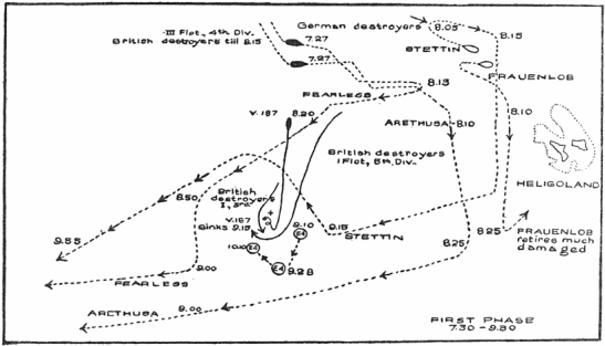 Map showing British and German ships and movements at the Battle of Heligoland Bight, First Phase, 28 August 1914.